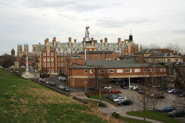 The Old Station